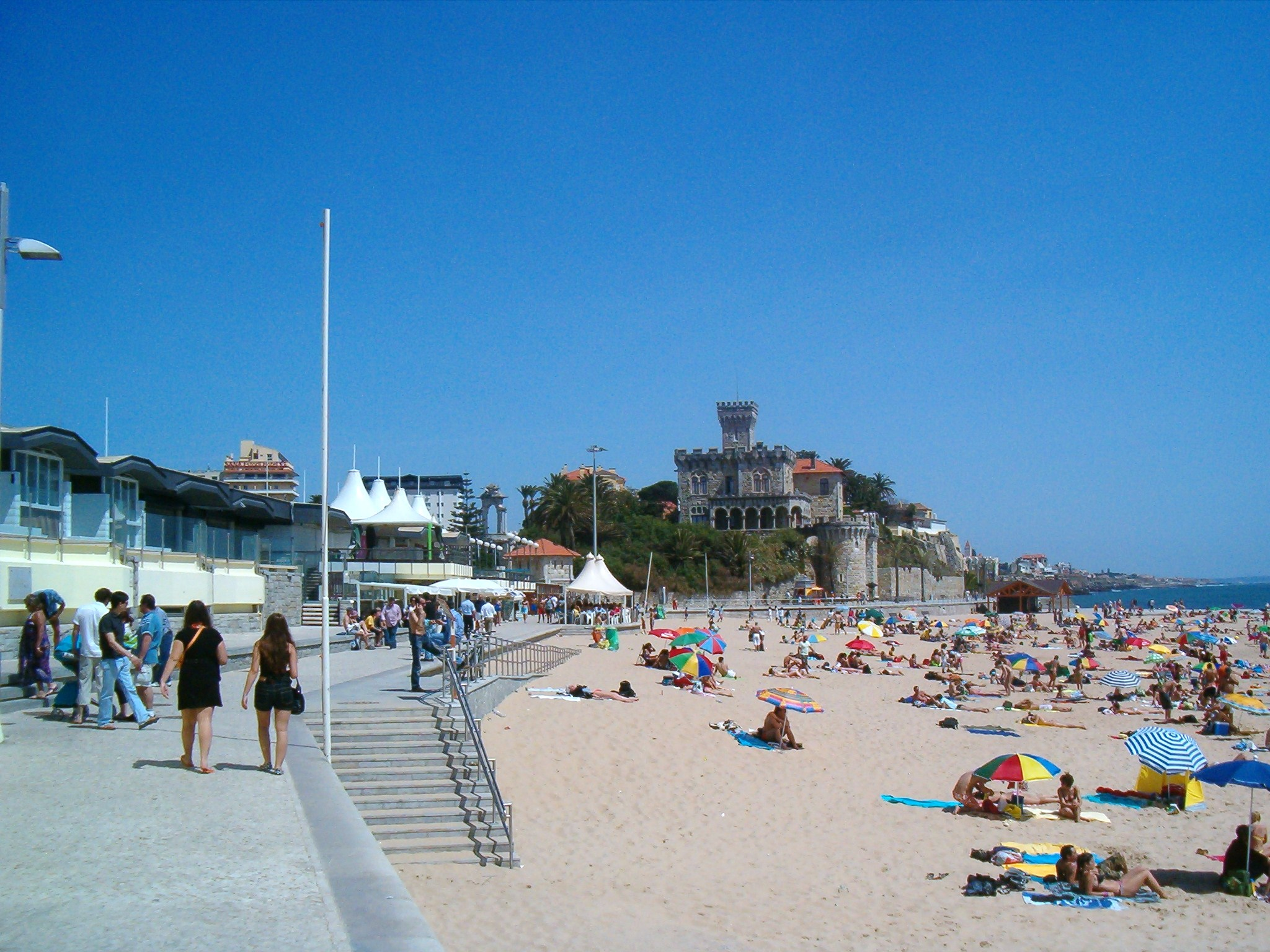 Cascais